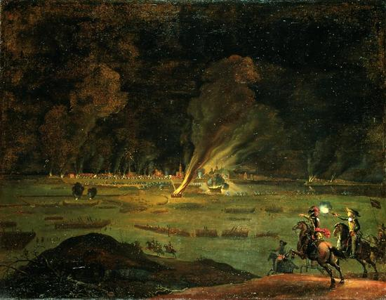 The assault of Copenhagen on the night between 10 and 11 February 1659